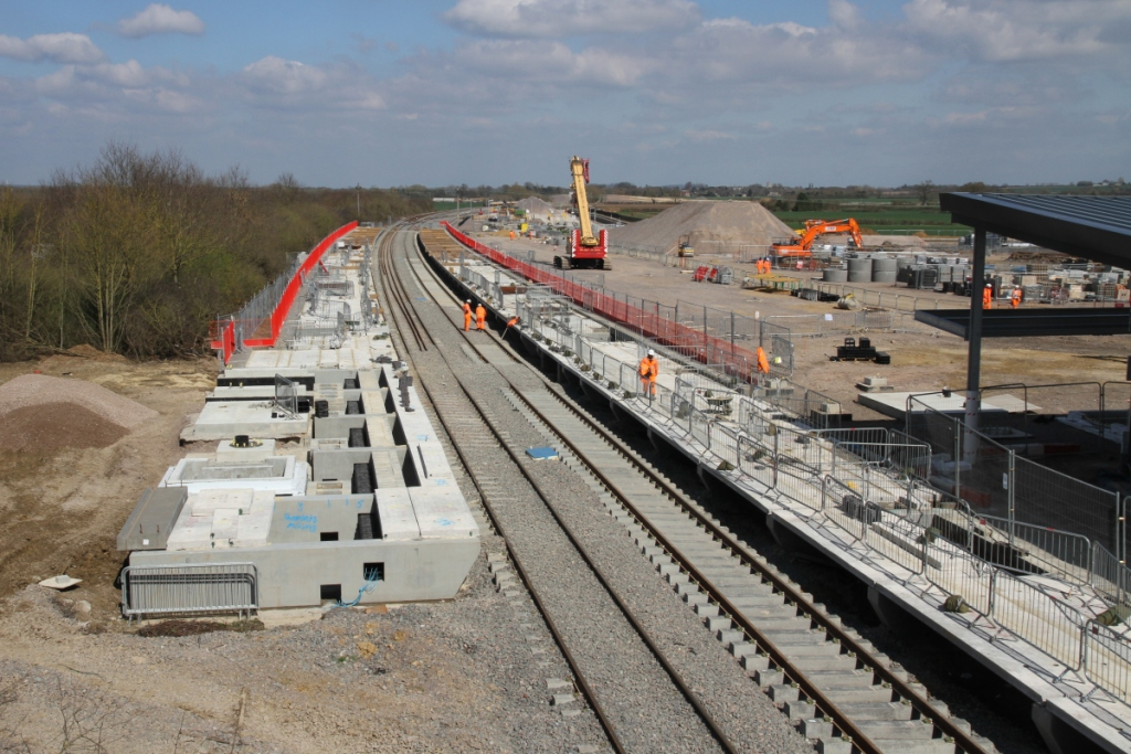 Oxford Parkway railway station: platforms being built